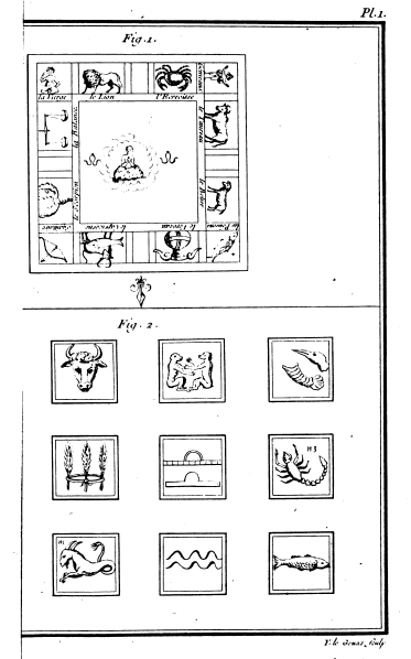 Some pictures of the Histoire de l'astronomie ancienne by Jean Sylvain Bailly.